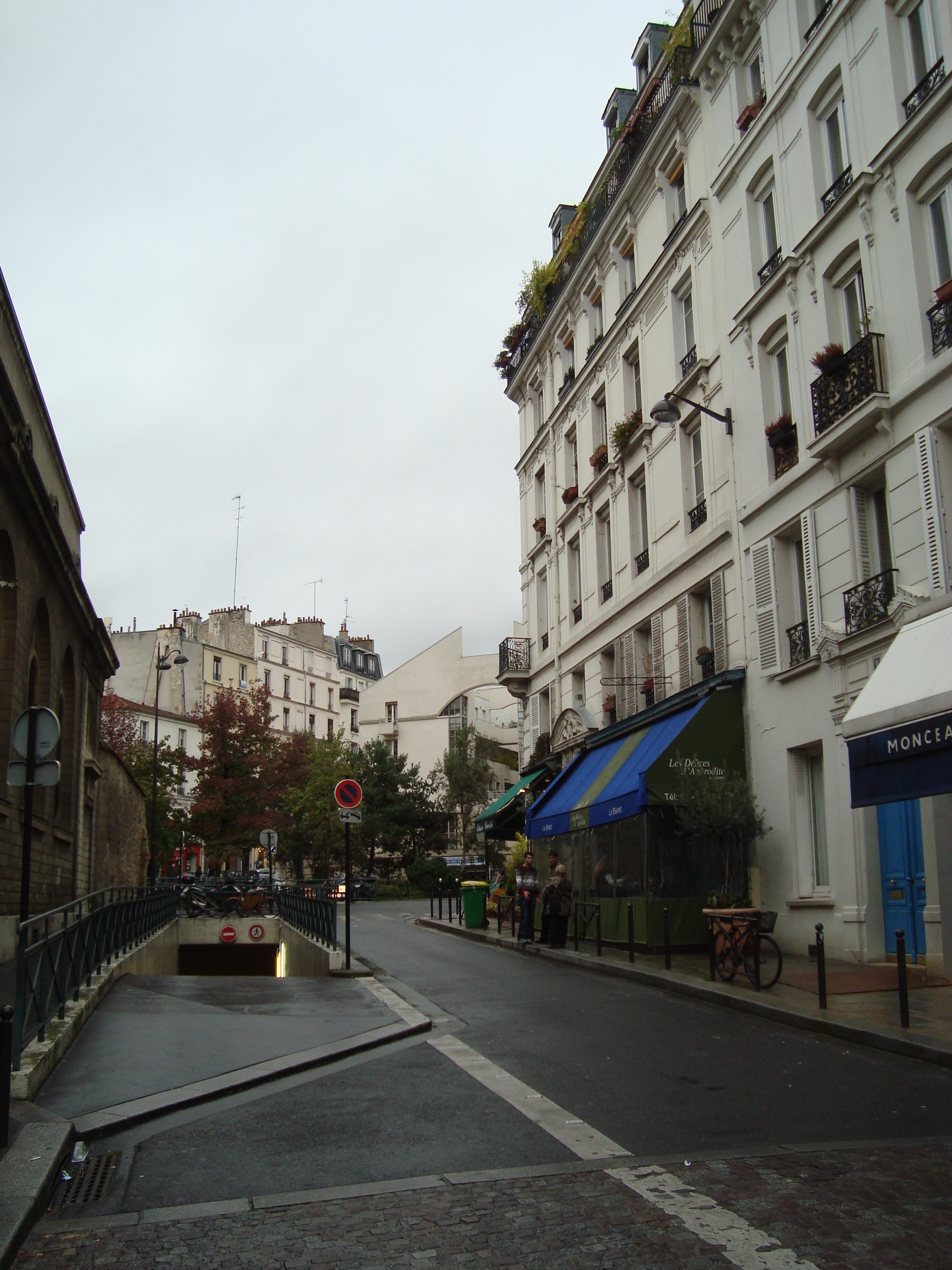 Rue de Candolle, in Paris